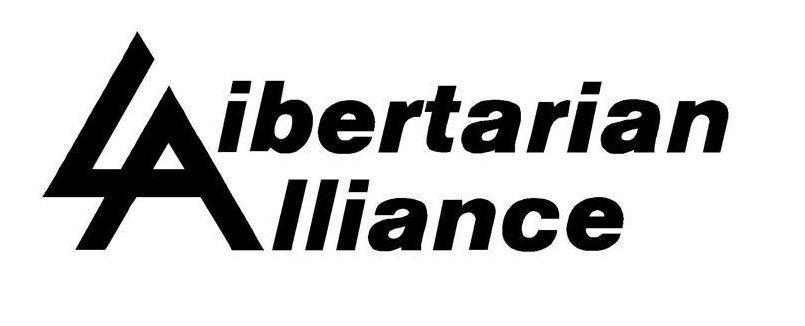 The logo of the Libertarian Alliance